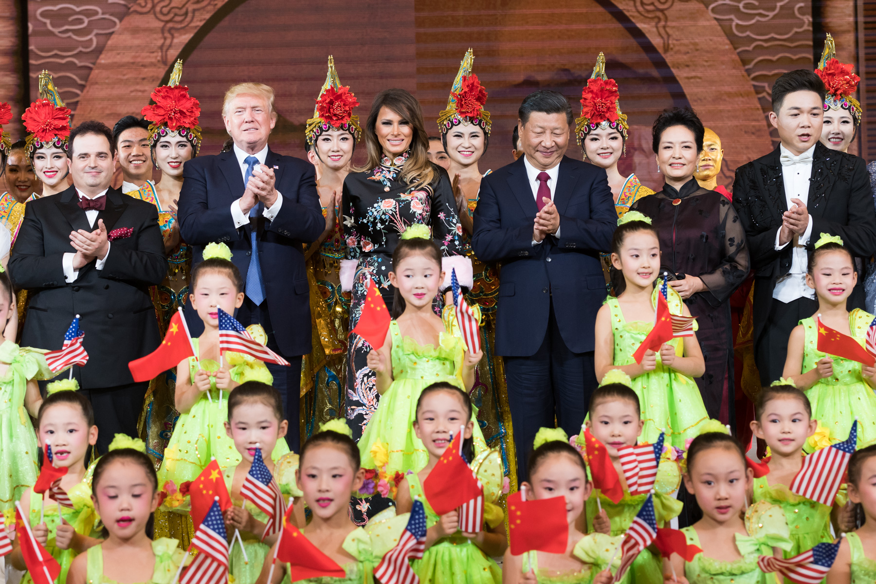 President Trump visits China | 2017